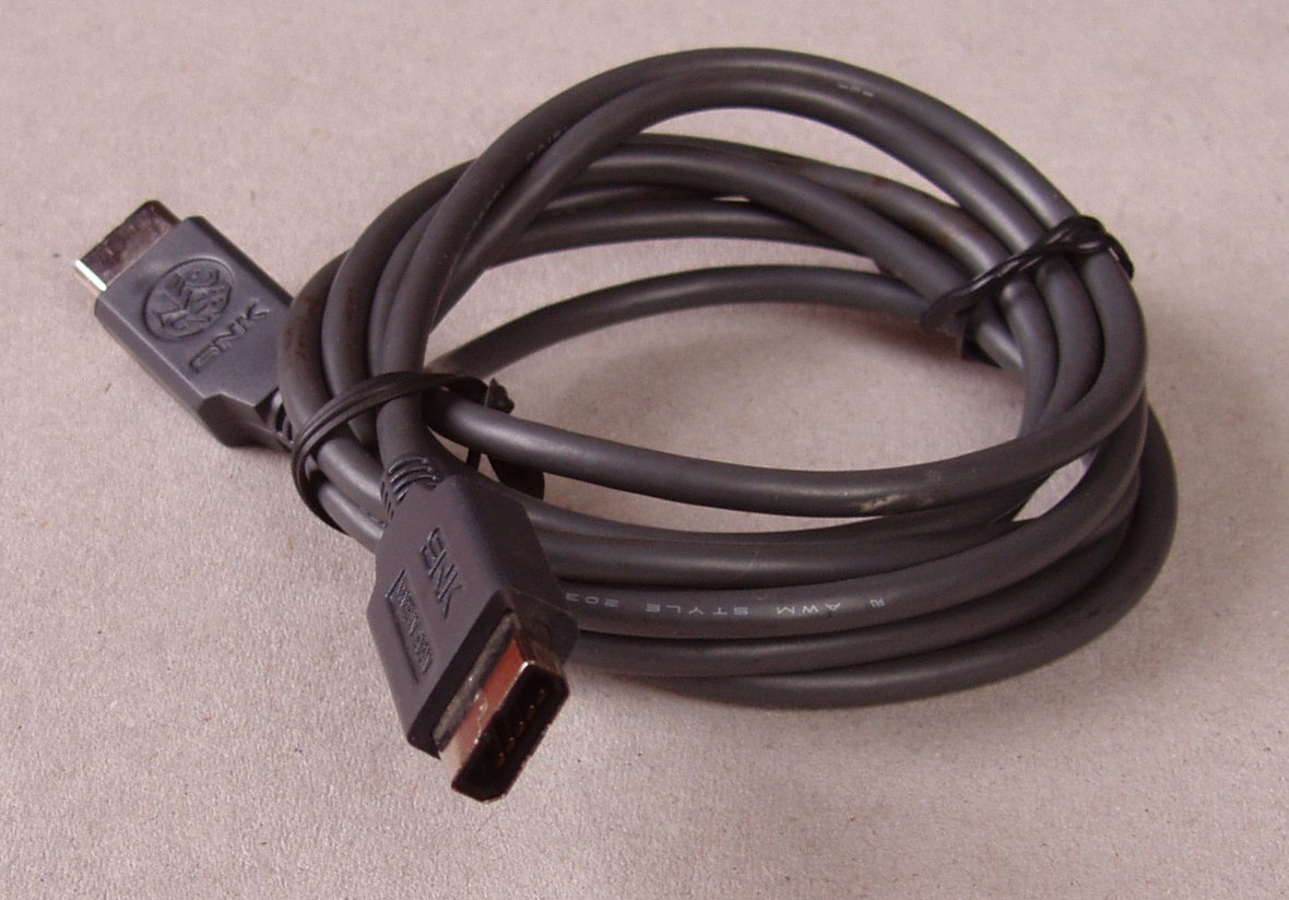 The link cable for connecting two Neo Geo Pockets together.